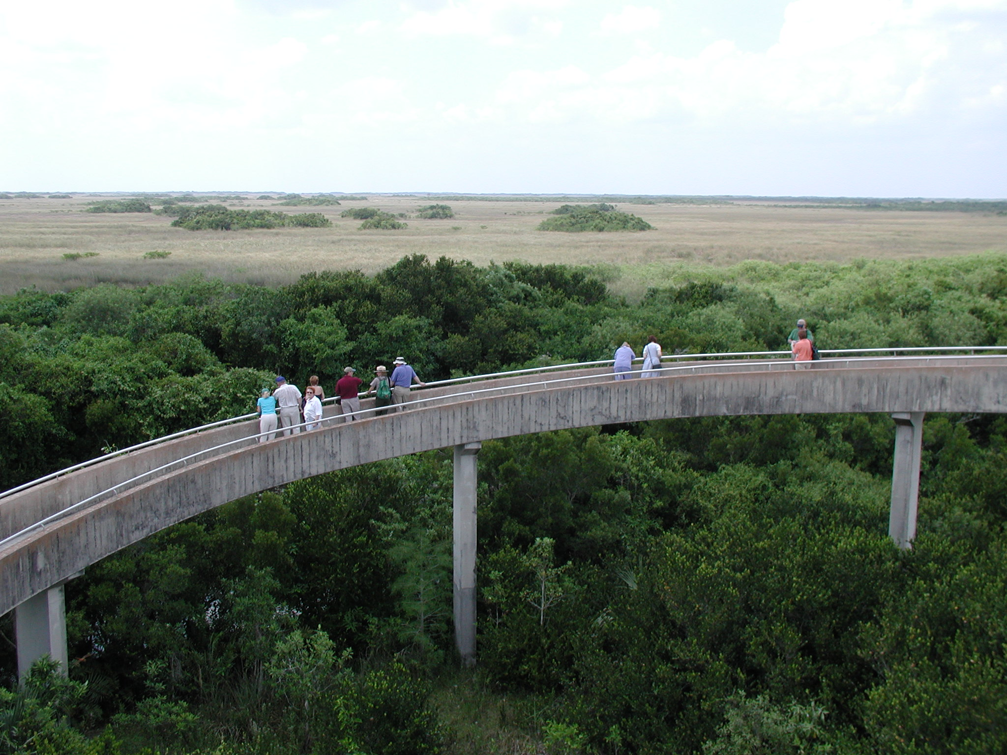 Everglades Overlook: South Florida